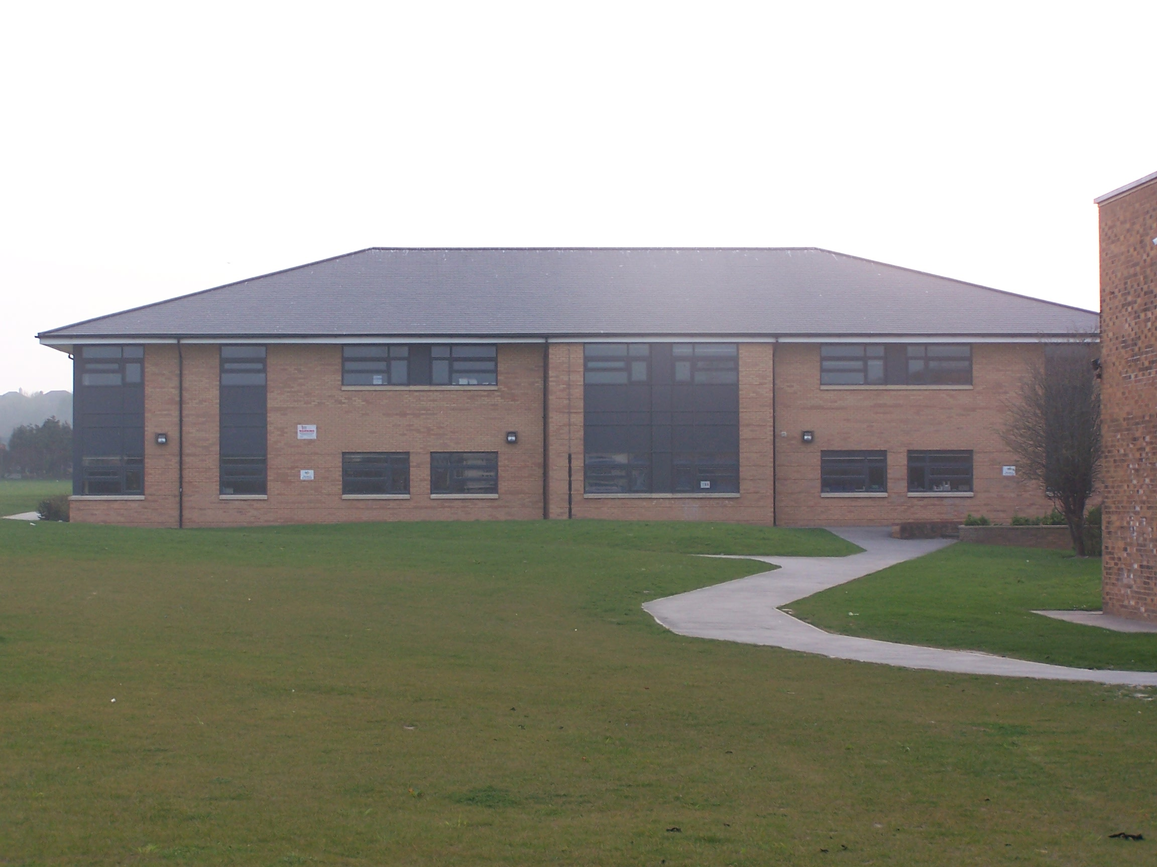 View of Bispham High School. Photo taken by ♦Tangerines BFC ♦·Talk 03:23, 14 April 2007 (UTC) on 13 April, 2007